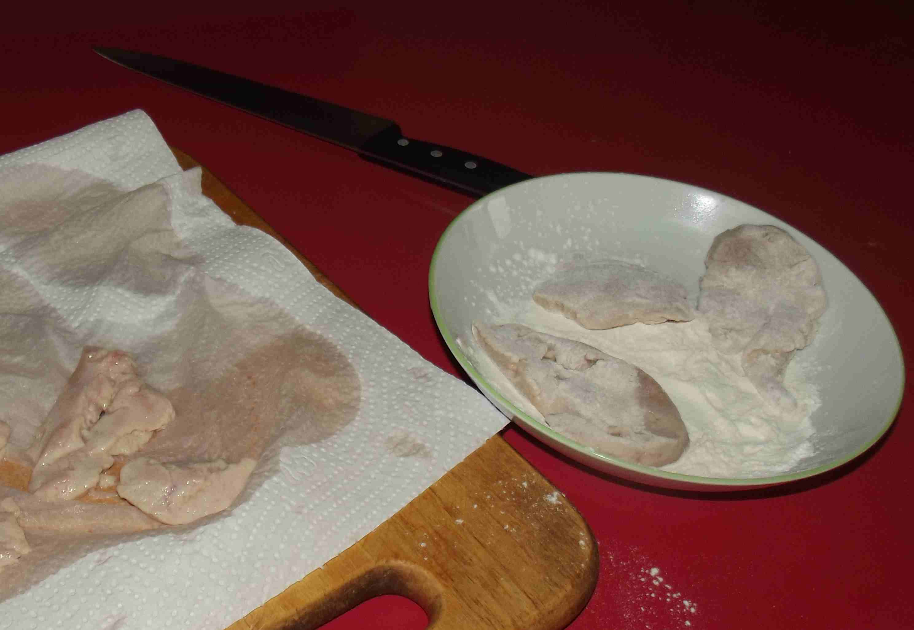 Sliced calf testicles